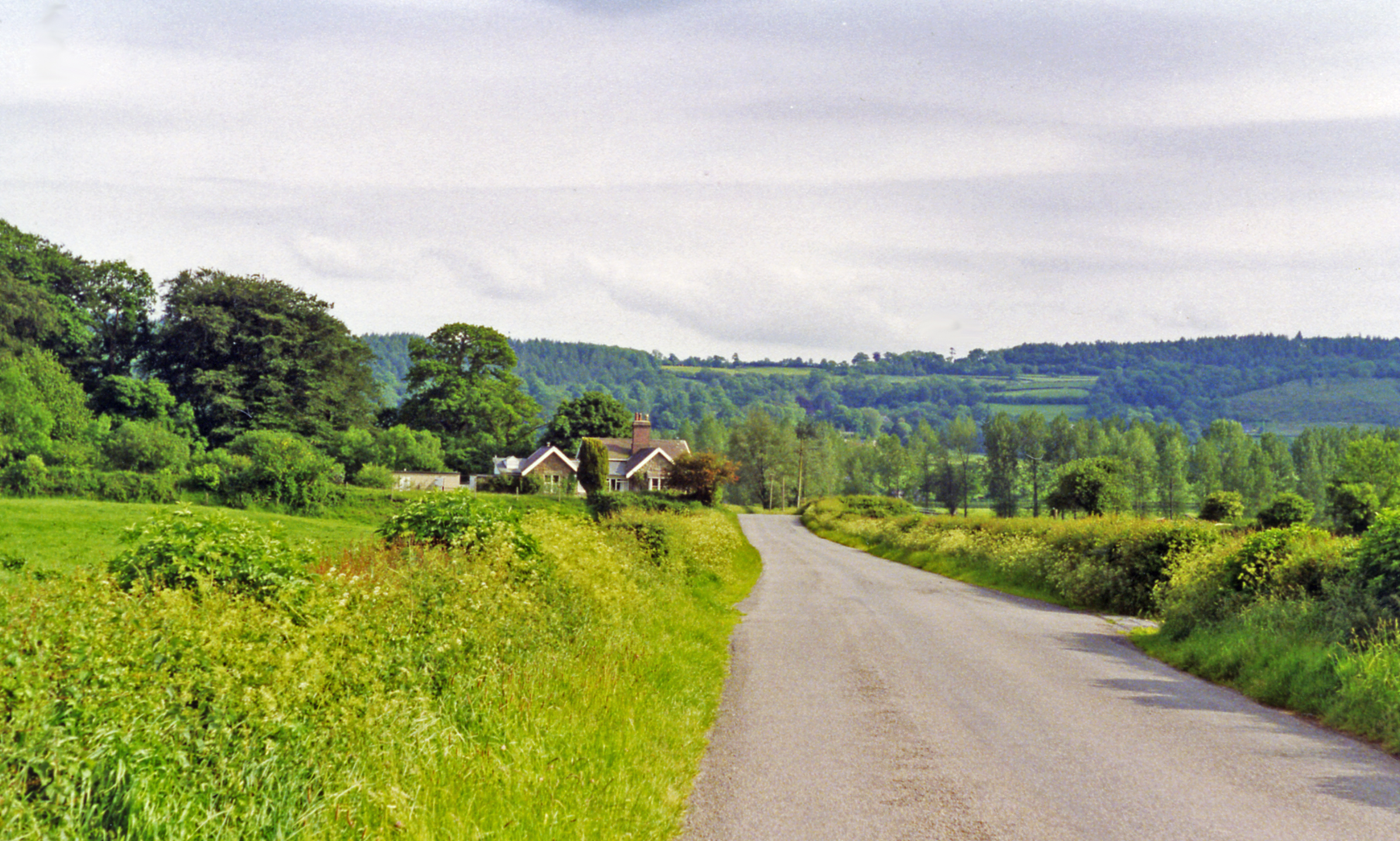 Approaching site of Golden Grove station, 1993. View southward from Cilsan Bridge, towards former level-crossing over ex-LNWR branch Llandilo (to left) - (to right) Carmarthen, closed 9/9/63.